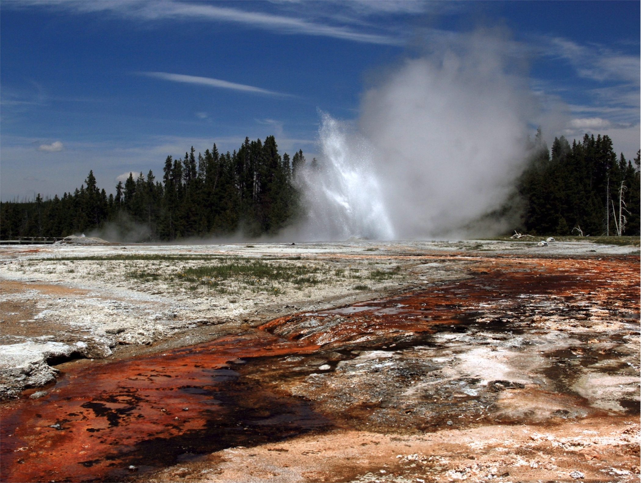 Daisy Geyser erupting in Yellowstone National Park